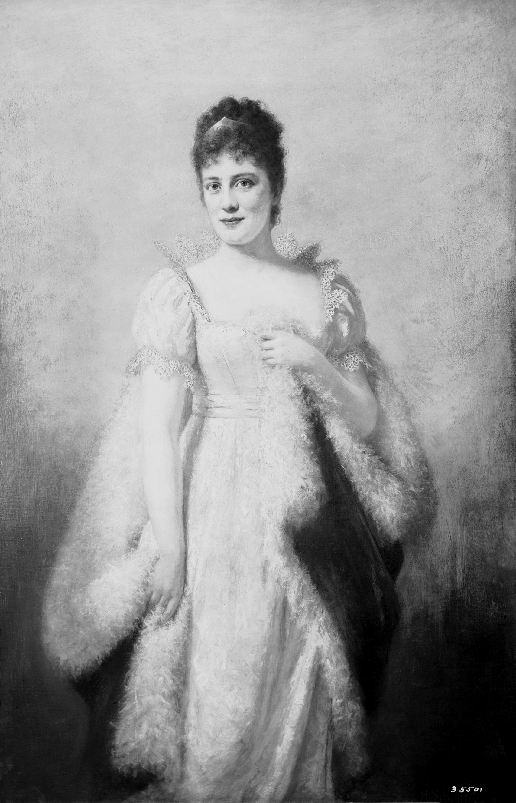 Hermann Schmiechen, Portrait of Lillian Nordica, by Hermann Schmiechen, 1878. Oil on panel, 61 x 40 in.